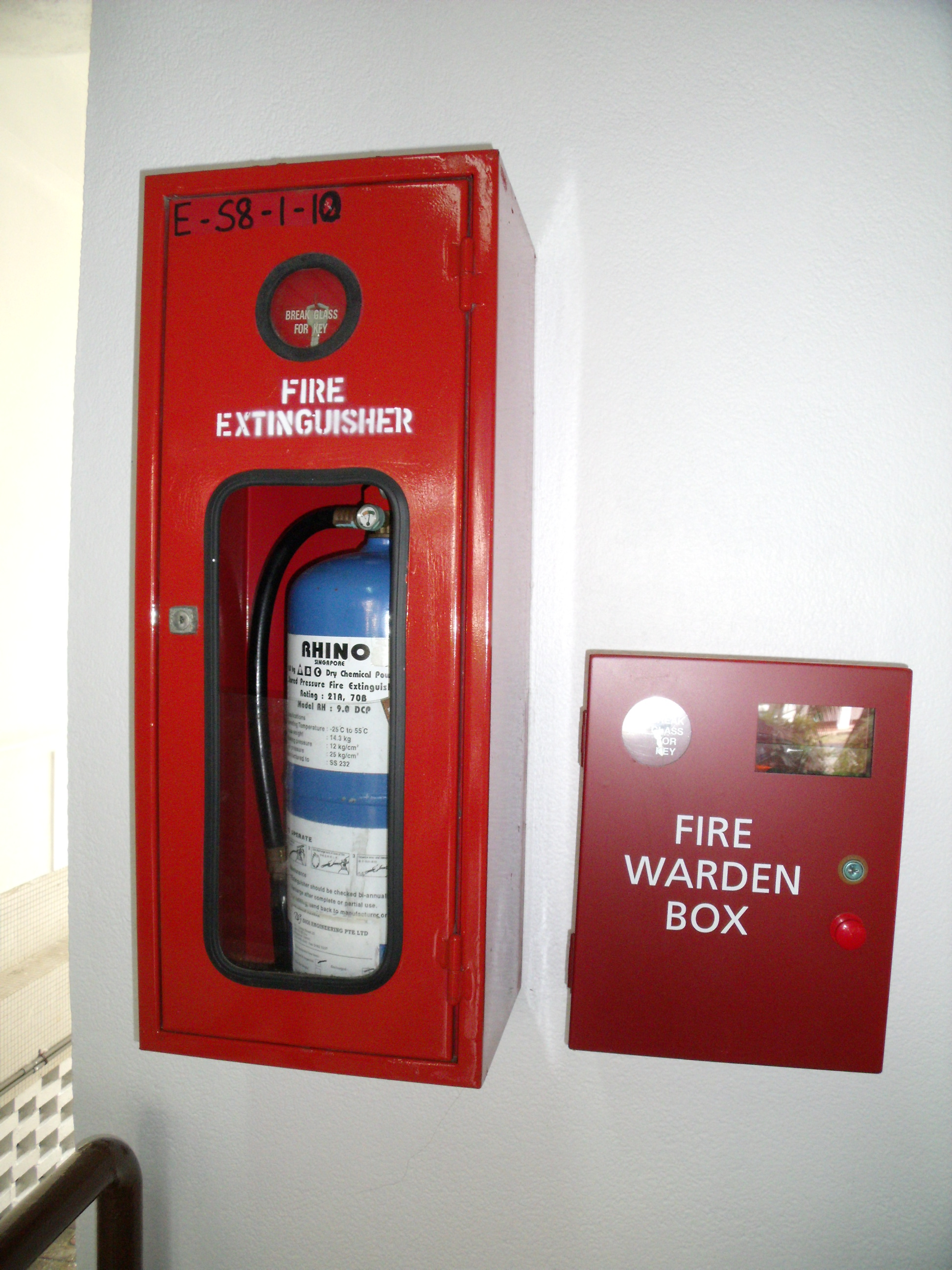 The fire extinguisher located in National University of Singapore